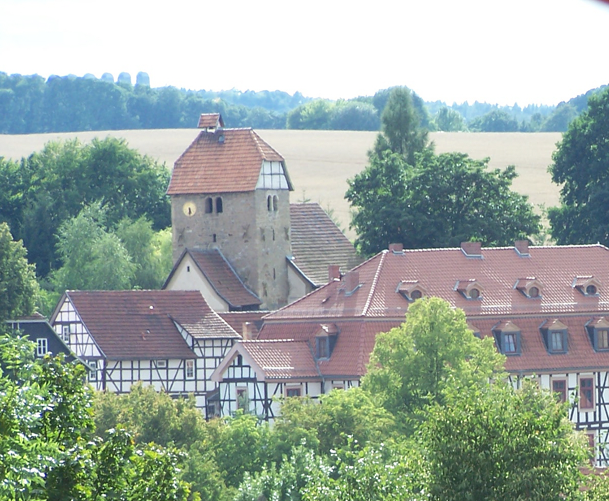 The church in Bischofroda village.